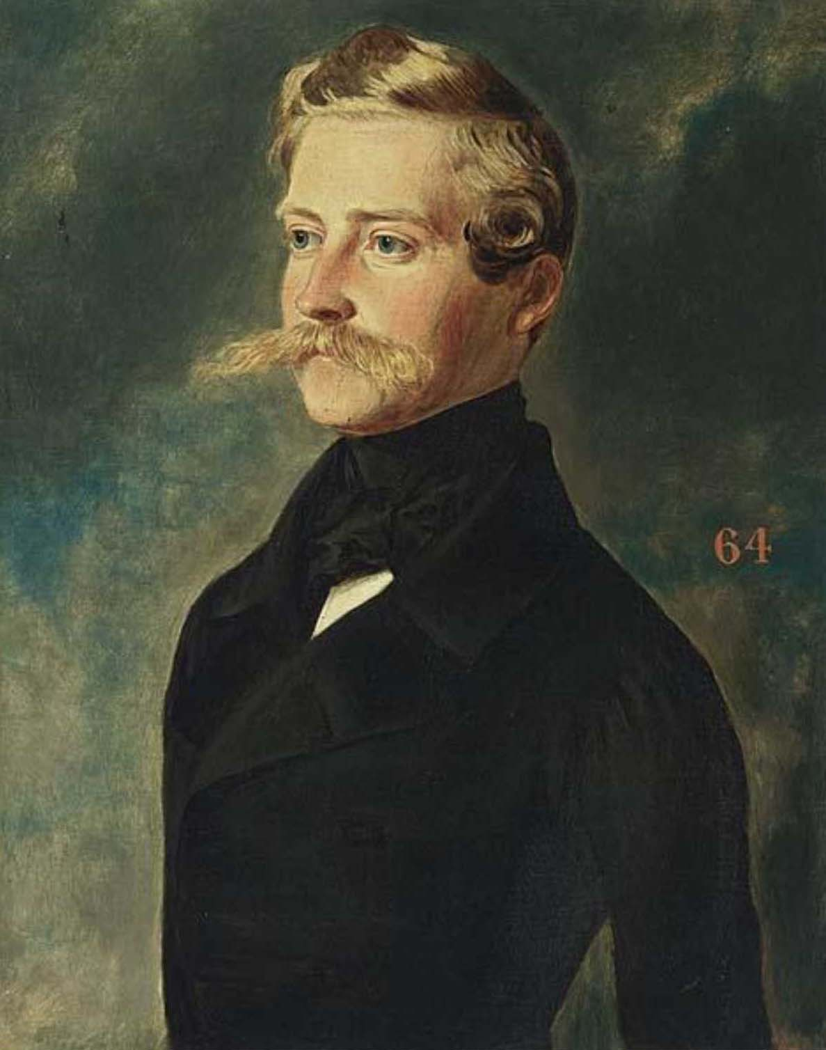 Prince Leopold of Saxe-Coburg-Gotha (1824-1884)